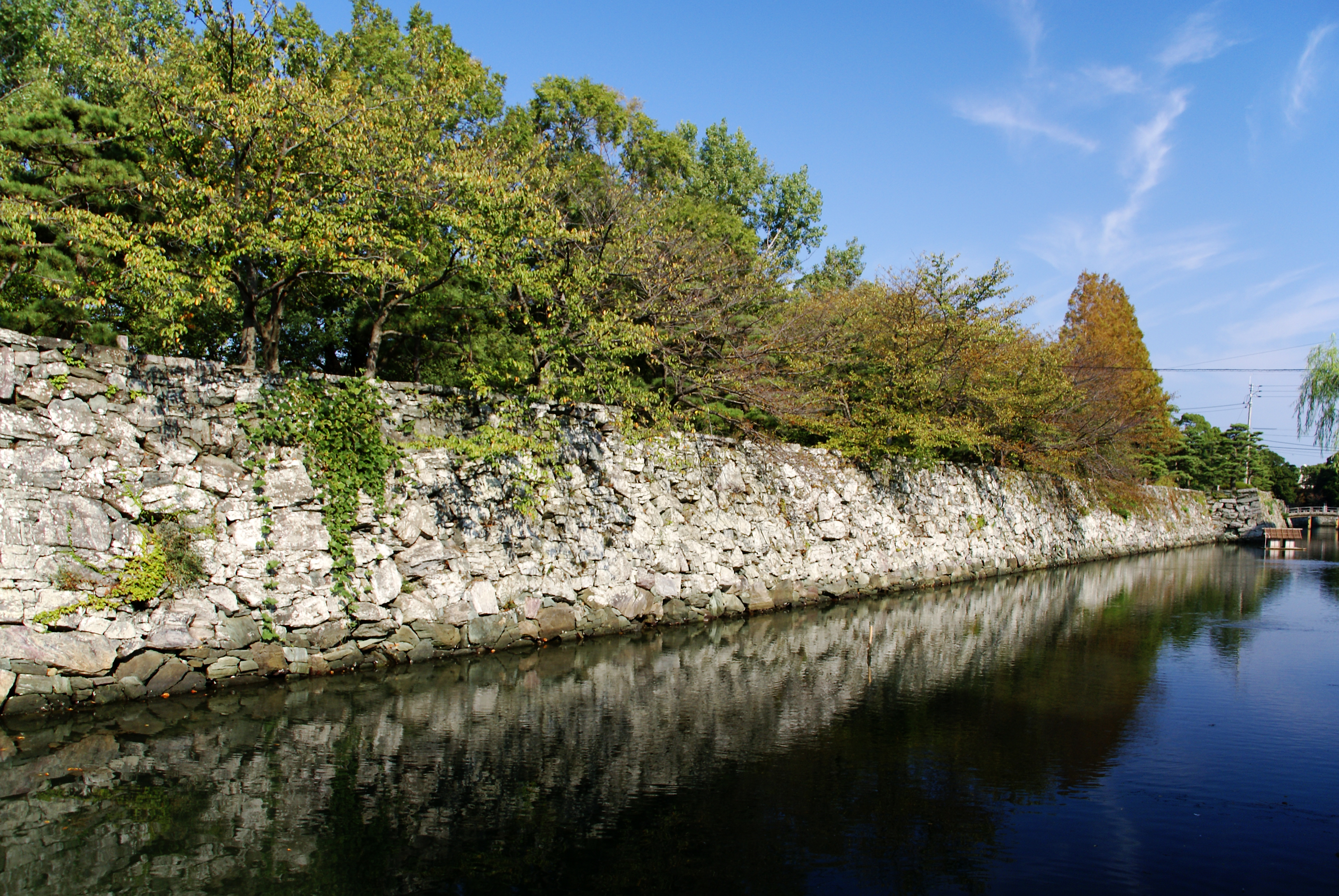 Tokushima Castle in Tokushima, Tokushima prefecture, Japan